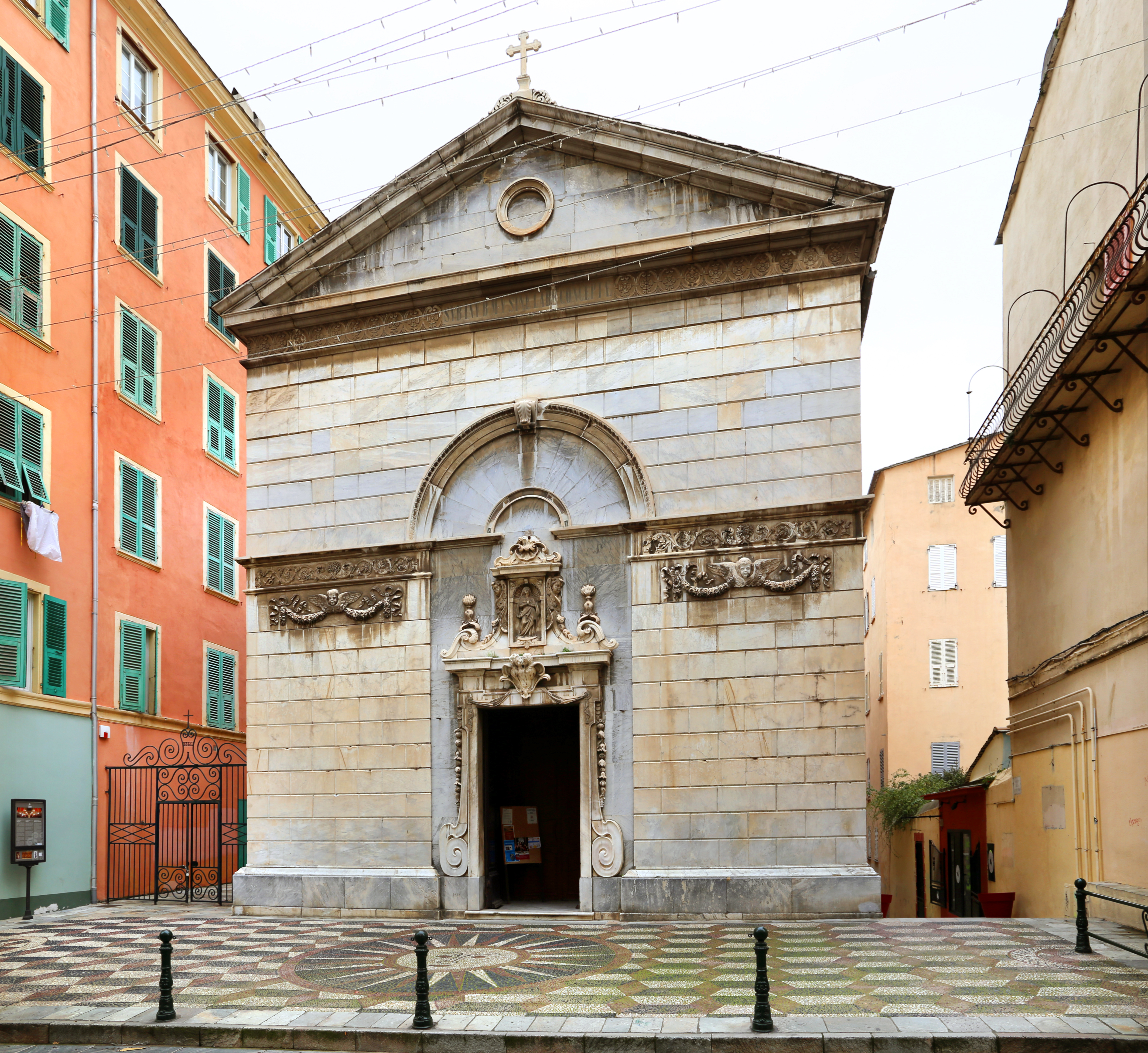 Église de la Conception de Bastia